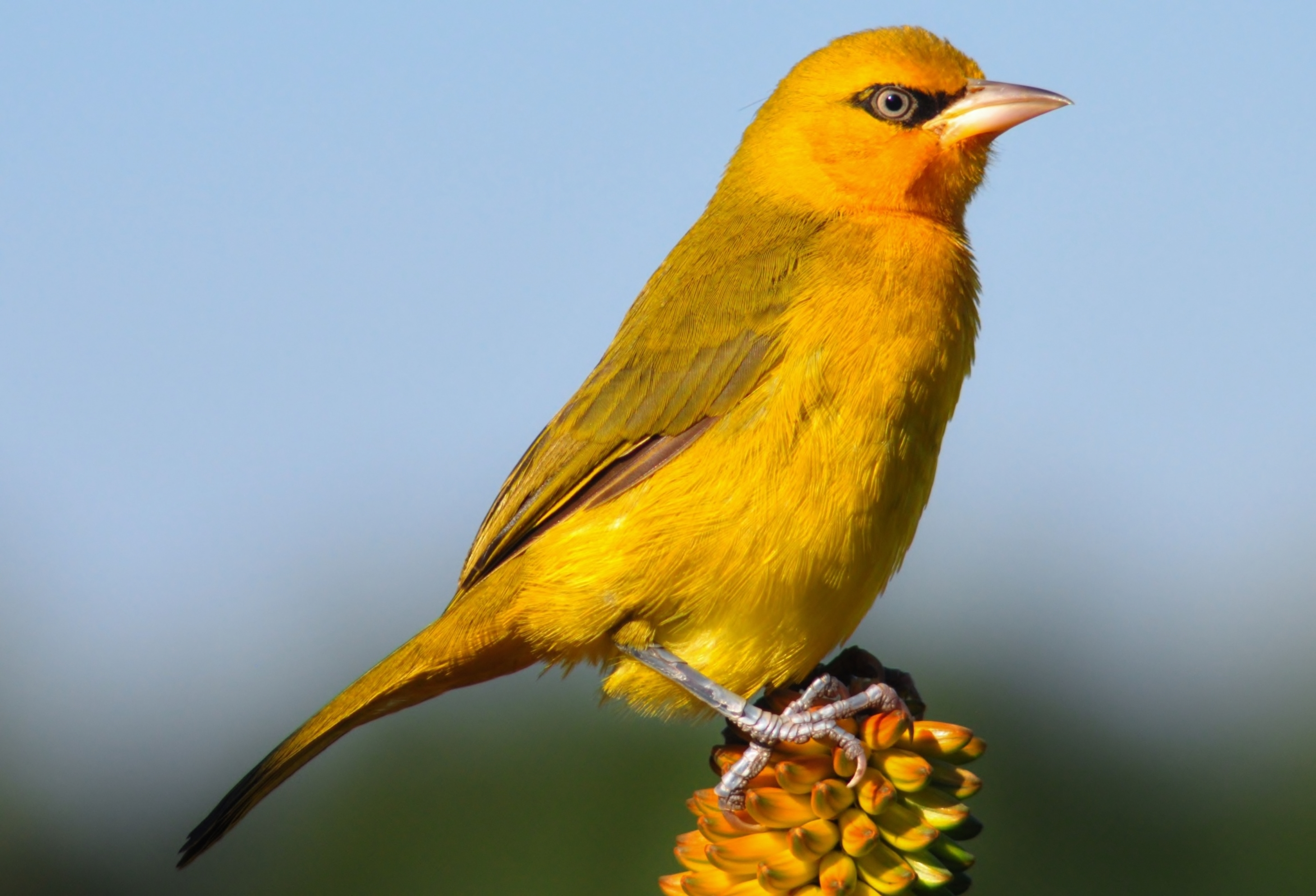 Durban, South Africa